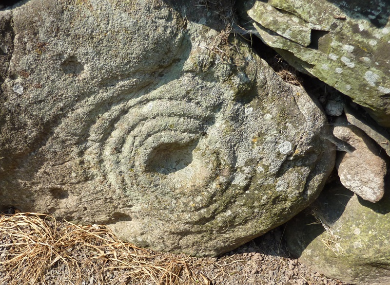 Tealing Earth House, Tealing, Angus, Scotland - cup and ring marks